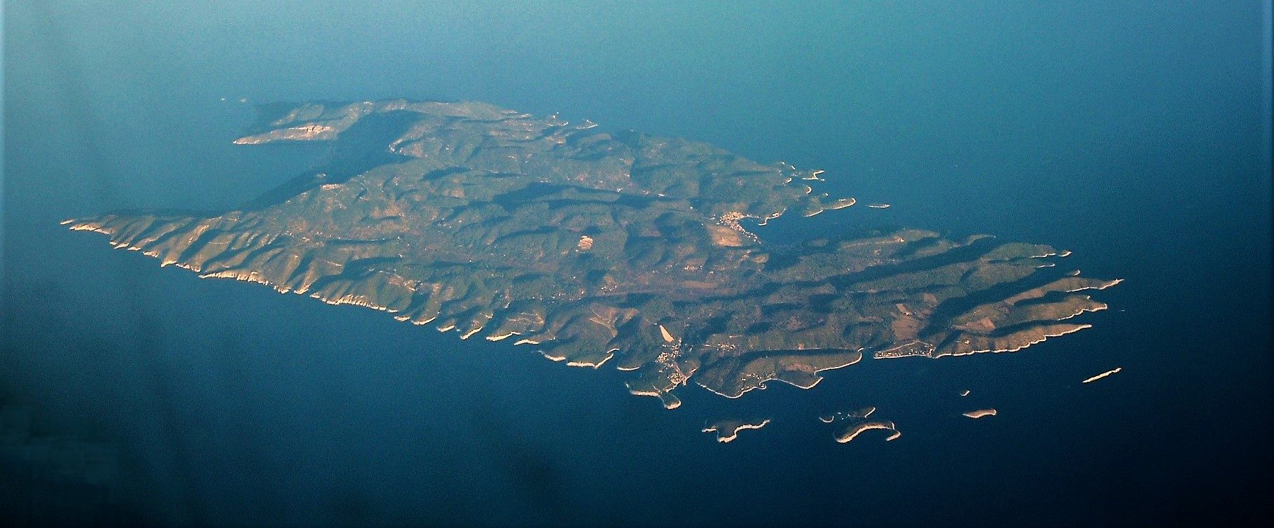 The Vis island seen from the airplane. Located in the Adriatic Sea not far from the city of Split, Croatia.